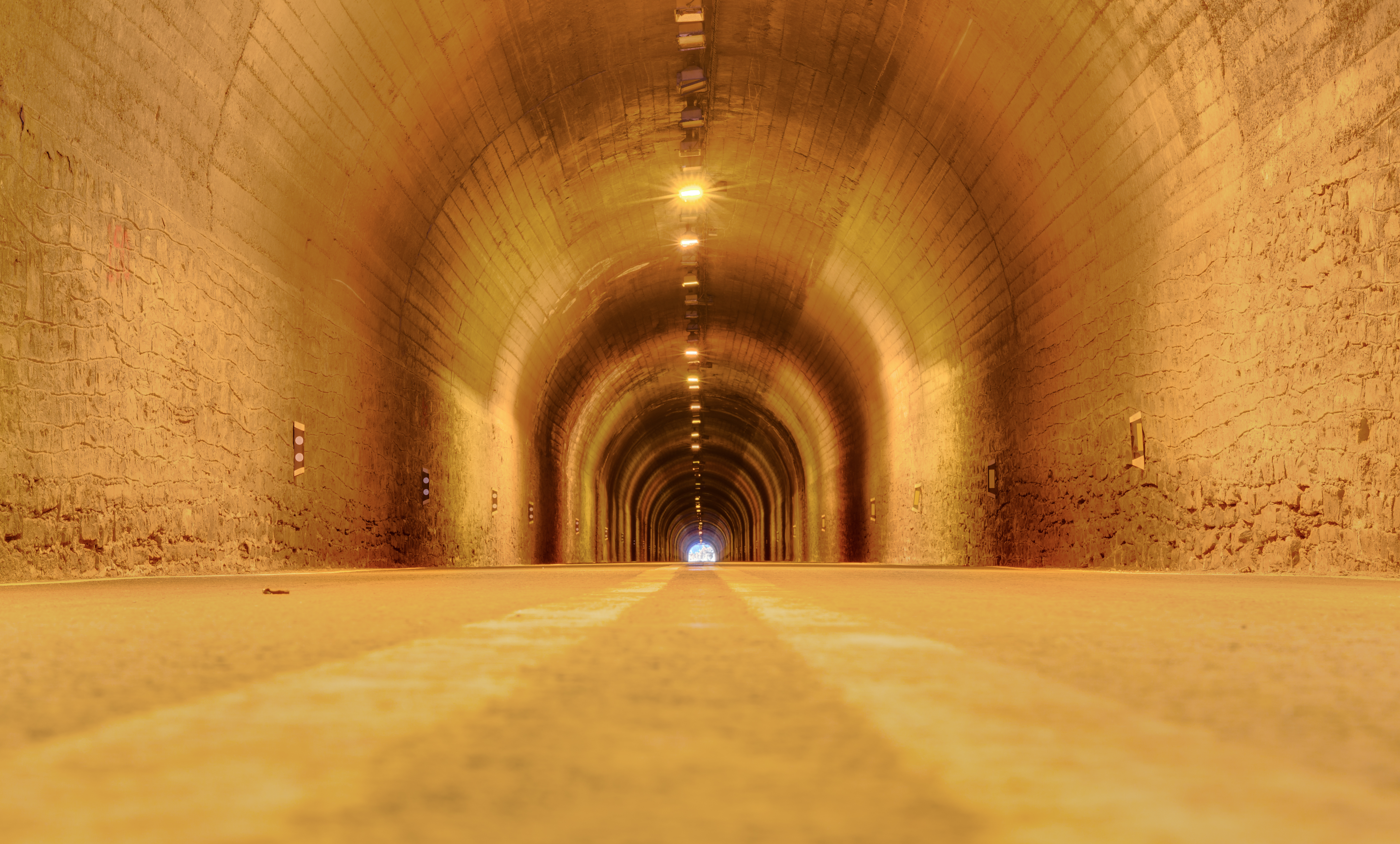 Pass of Cotefablo, SCI Pass of Otal - Cotefablo, Huesca, Spain This is a photography of a Special Area of Conservation in Spain with the ID: ES2410044. Natura2000 entry, EEA entry